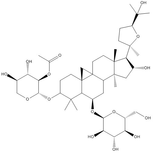 Chemical structure of Astragaloside II